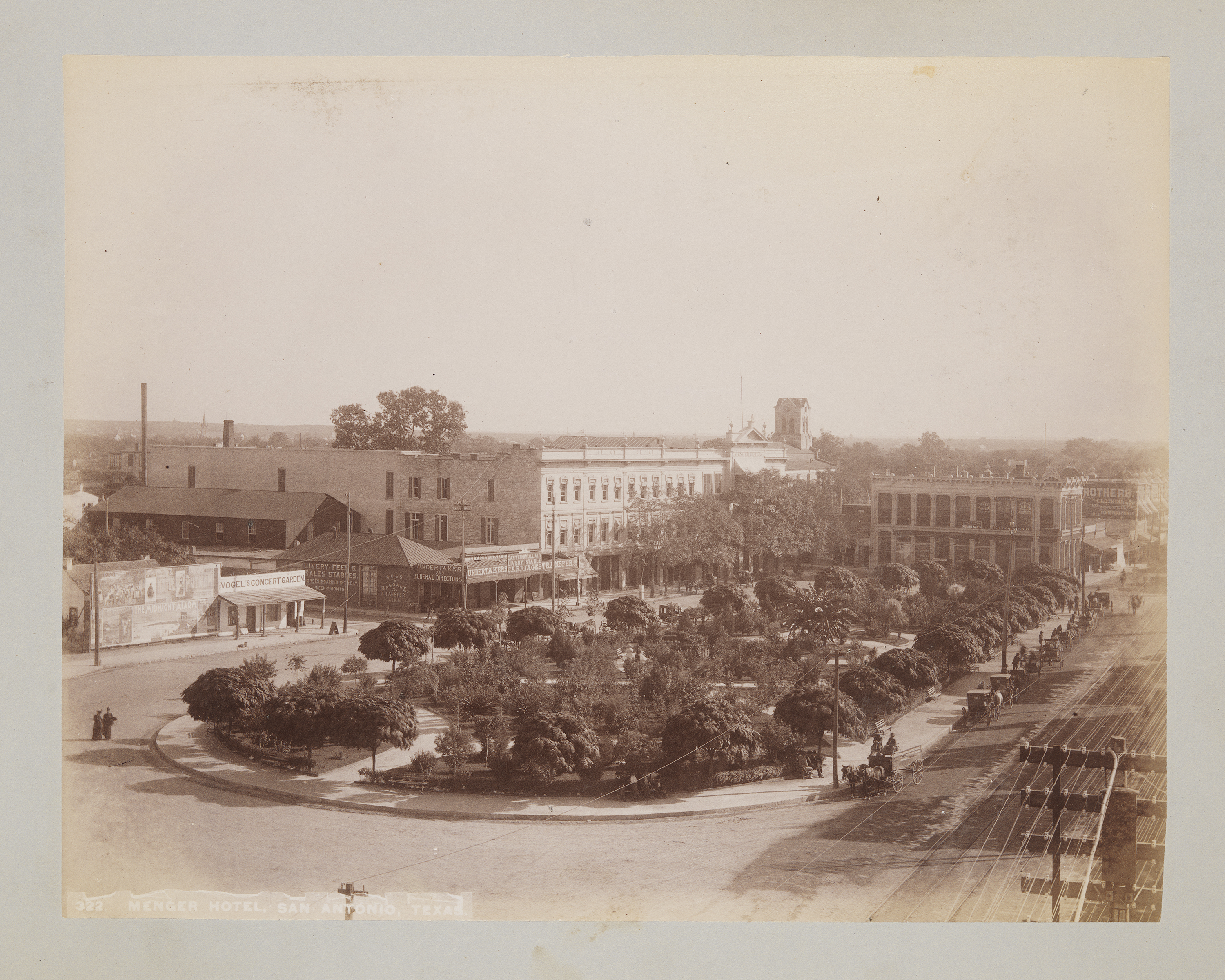 Title: Menger Hotel, San Antonio, Texas. Creator: Unknown Date: ca. 1897 Part of: Mexico, 1897/ Place: San Antonio, Bexar County, Texas Description: This is one of 175 photographs in a tourist album entitled, 'Old Mexico, 1897,' collected by F. M. White. Physical Description: 1 photographic print: gelatin silver, part of 1 volume (175 gelatin silver prints); 18 x 25 cm on 27 x 36 cm mount File: ag1982_0028_003_opt.jpg Rights: Please cite DeGolyer Library, Southern Methodist University when using this file. A high-resolution version of this file may be obtained for a fee. For details see the web page. For other information, . For more information and to view the image in high resolution, View Mexico - Photographs, Manuscripts, and Imprints